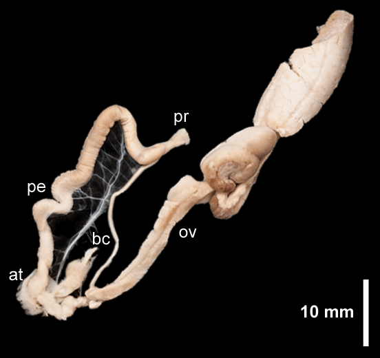 Photo of reproductive system of Limax cinereoniger. Locality: Coille na Glas-Leitire, Beinn Eighe NNR, near Kinlochewe, West Ross & Cromarty, UK - Scotland (according to the table S1.) pr - penial retractor muscle; pe - penis; at - atrium; bc - bursa copulatrix; ov - oviduct.